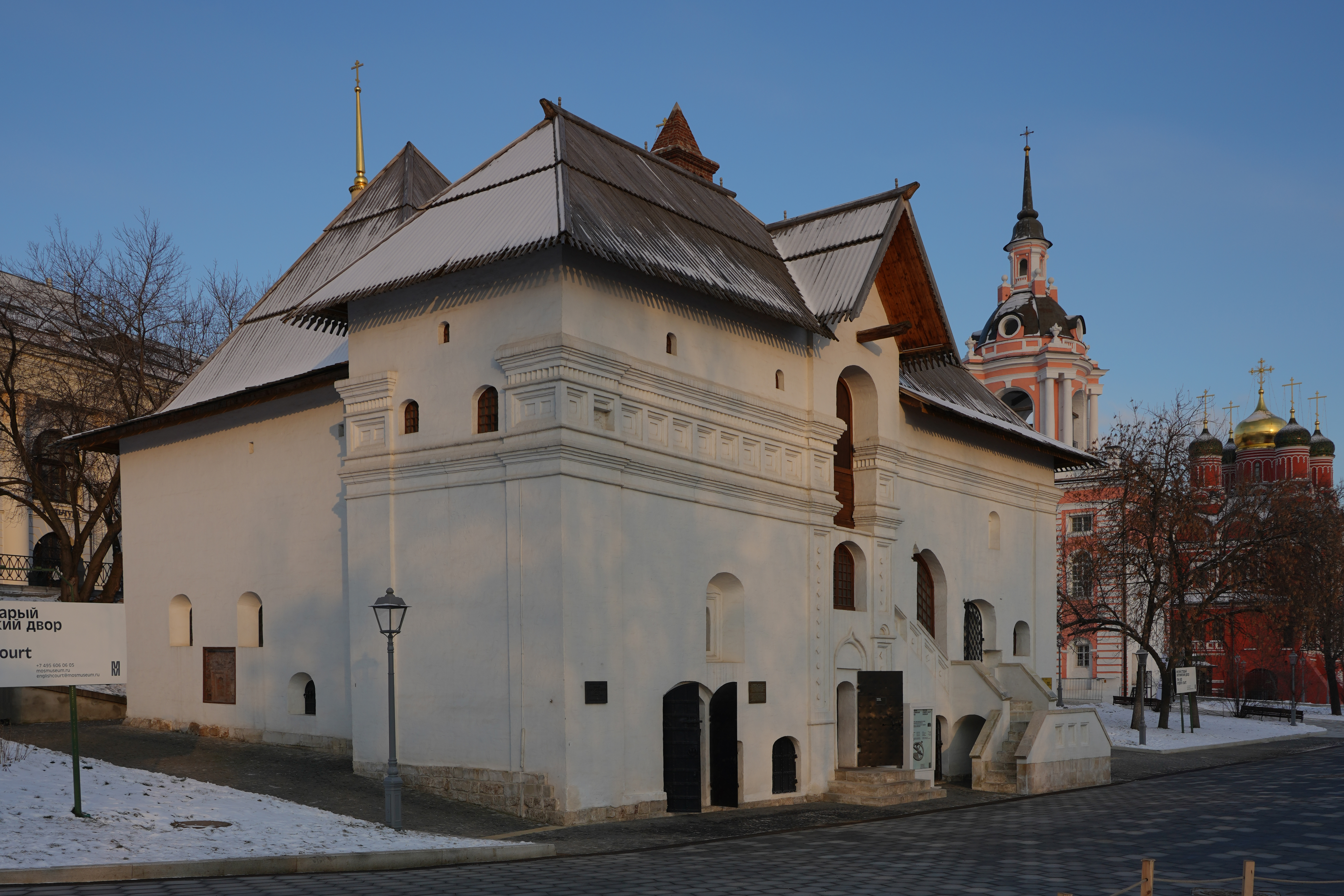 Zaryadye Park in Moscow, Old English Court